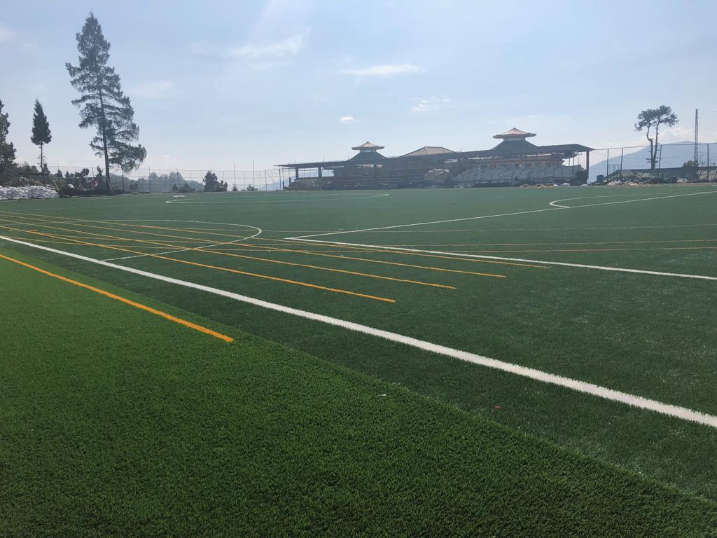 The new artificial turf being laid at the TNA Ground. The football ground has 2 futsal areas and track & field event areas for the annual Mini Olympics.